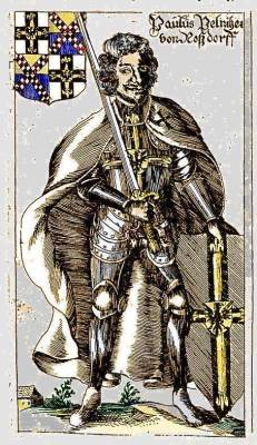 Paul von Rusdorf was the 29th grandmaster of the Teutonic Order, serving from 1422 to 1441